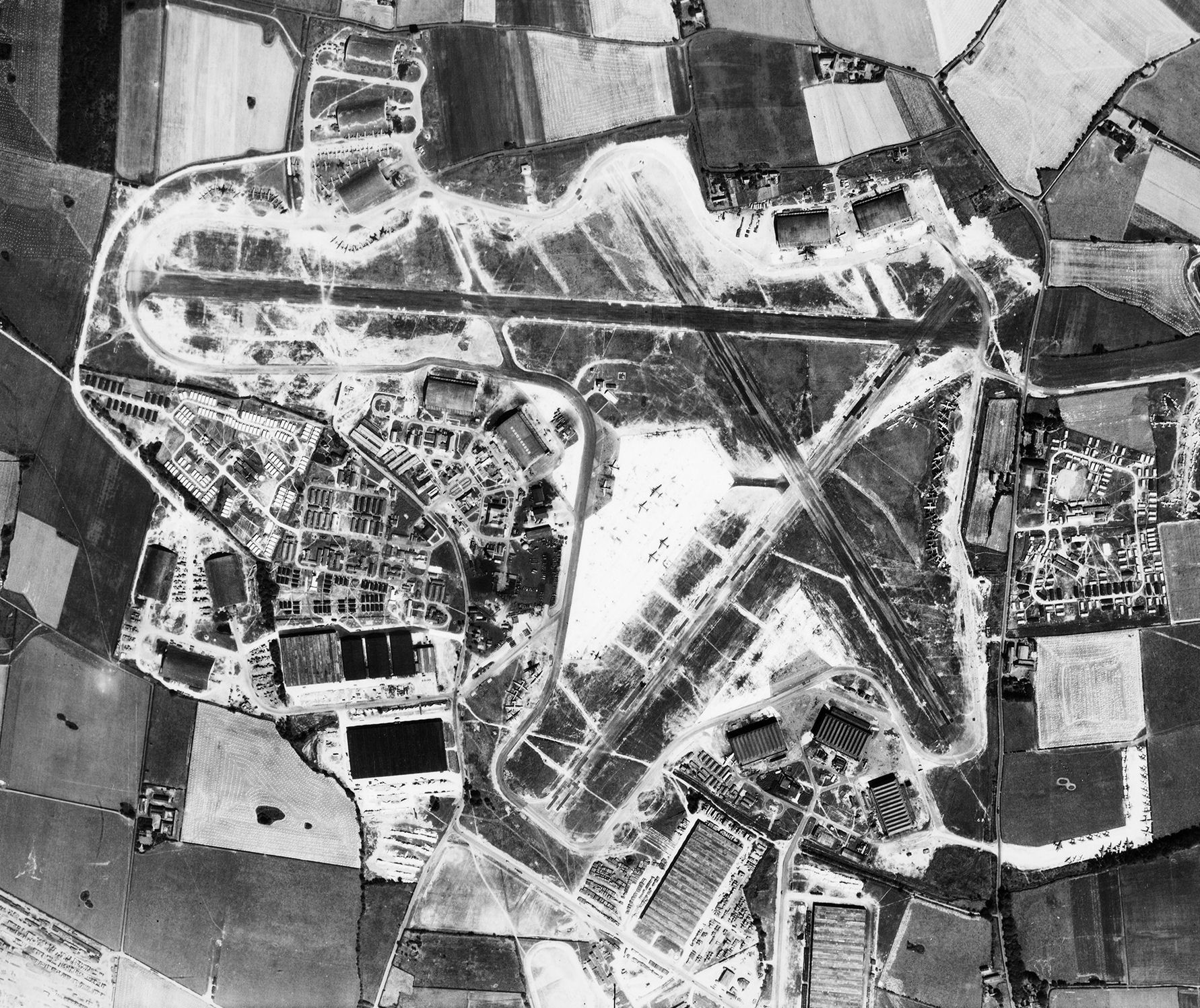 Aerial photograph of RAF Burtonwood 10 August 1945. Photograph taken by No. 541 Squadron, sortie number RAF/106G/UK/622. English Heritage (RAF Photography).